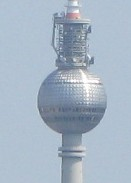 The Pope's Revenge on the sphere of Fernsehturm Berlin